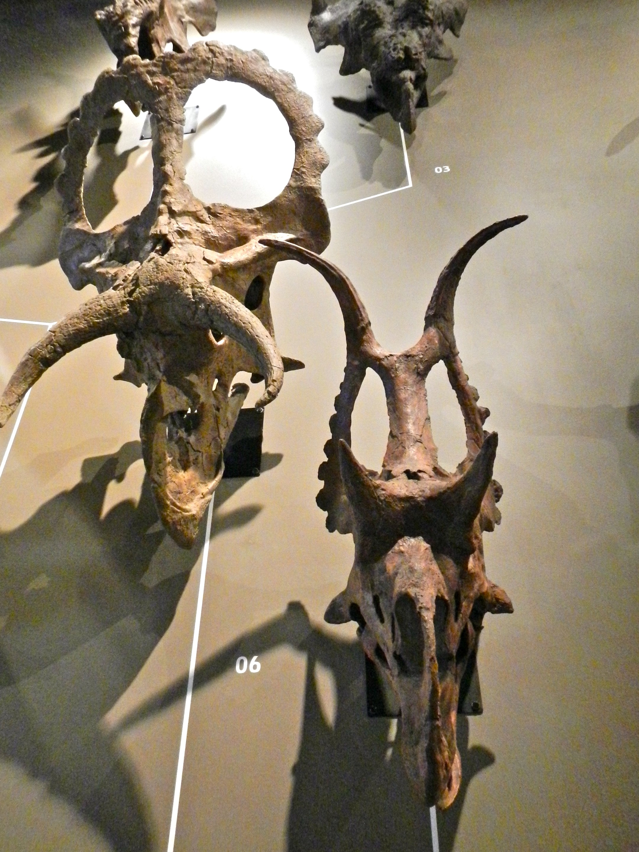 Nasutoceratops and Diabloceratops,Natural History Museum Salt Lake UT